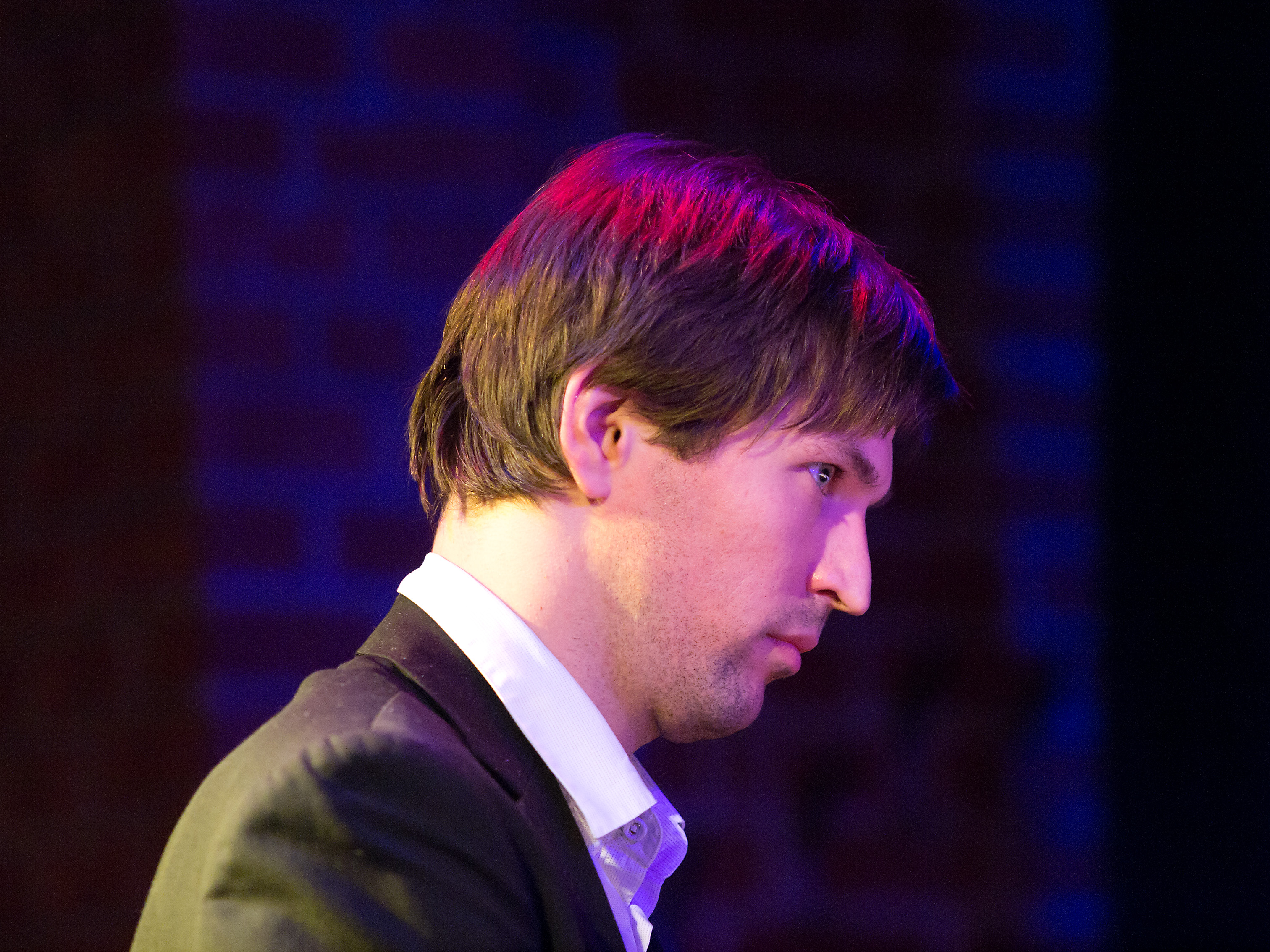 Jochen Pfister, Jazz pianist; Picture taken in Jazz Club Unterfahrt, Munich/Bavaria